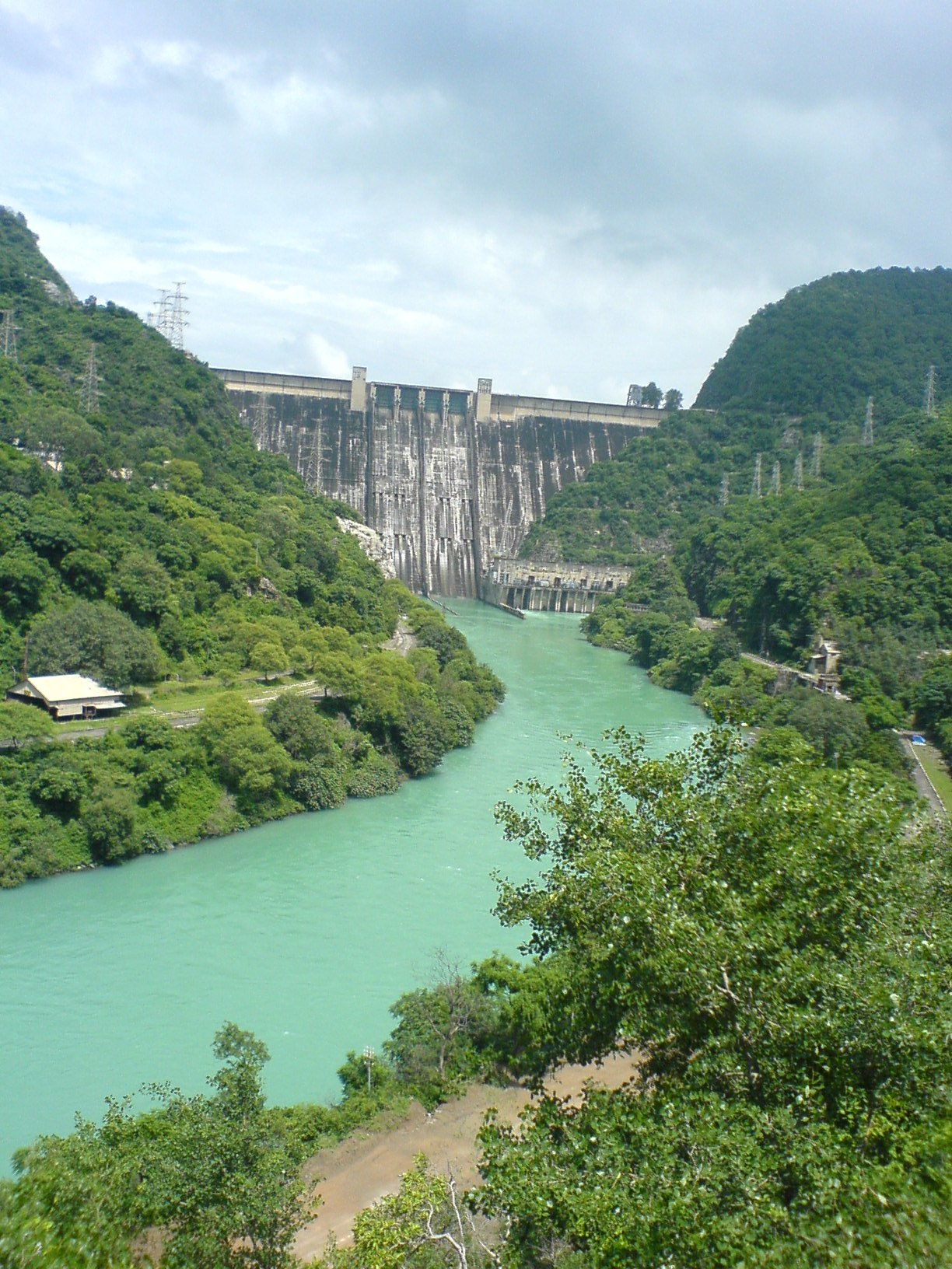 Bhakra Nangal Dam. Photo taken by Kawal Singh in 2008. Source: Taken by User:KawalSingh